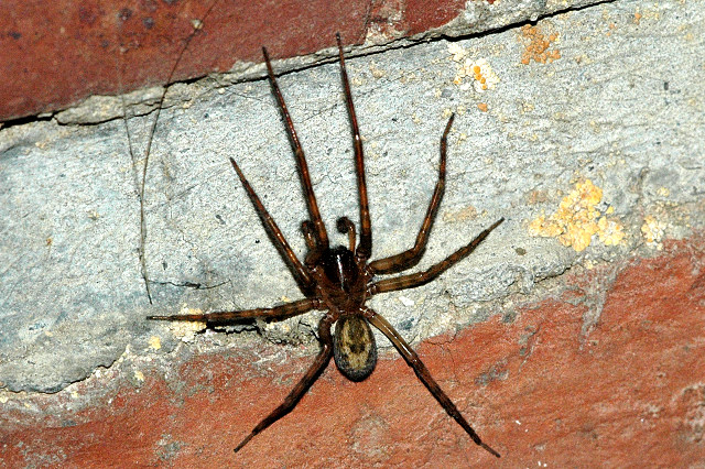 male Amaurobius similis from Commanster, Belgian High Ardennes .